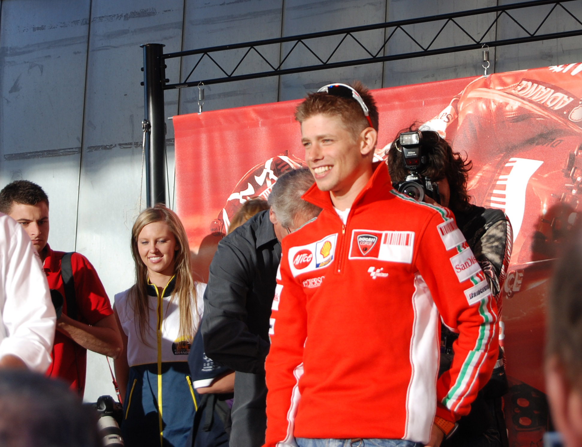 Casey Stoner, Phillip Island, 2007